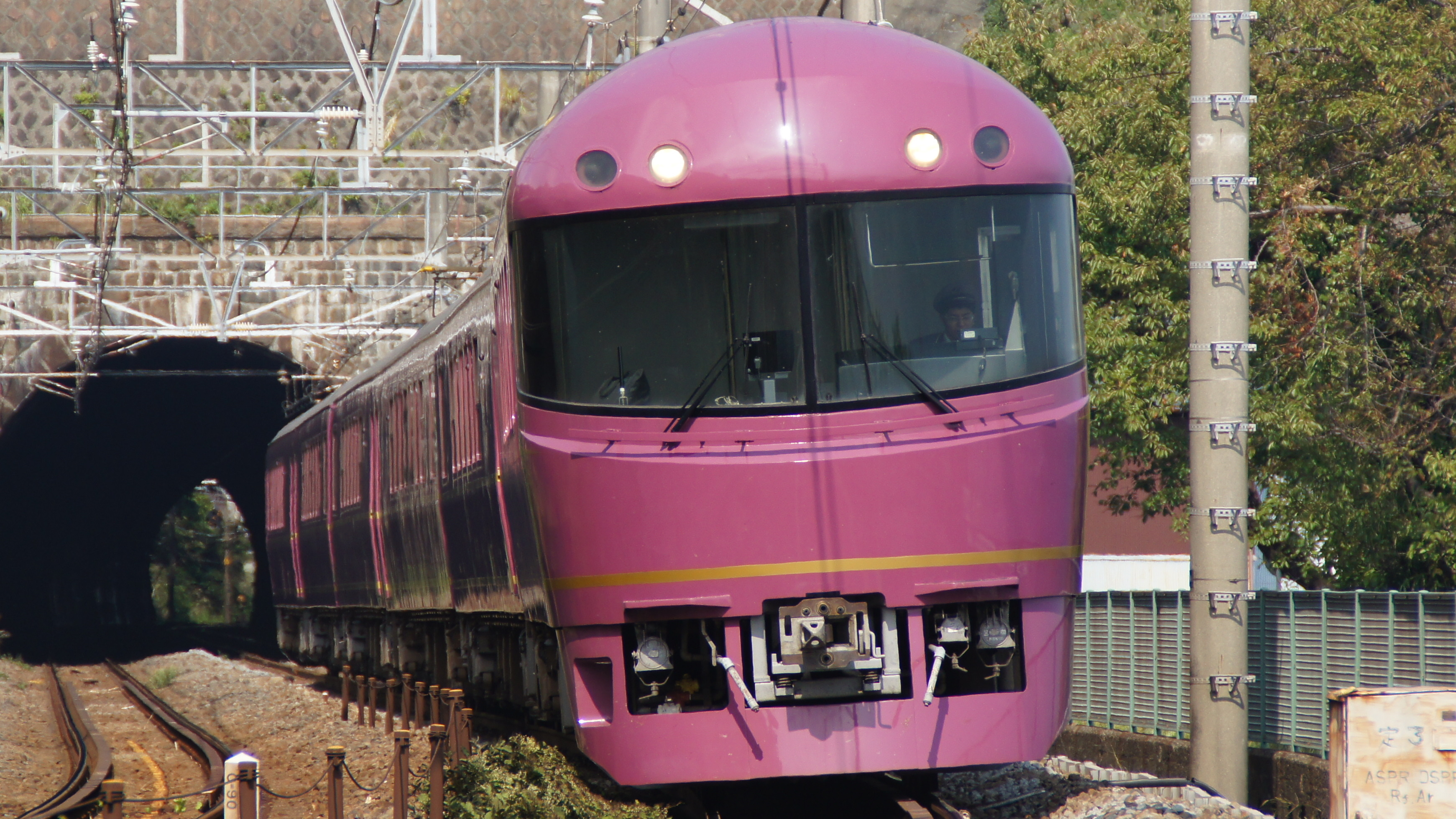 EMU 485 Utage running between Nebugawa and Yayakawa